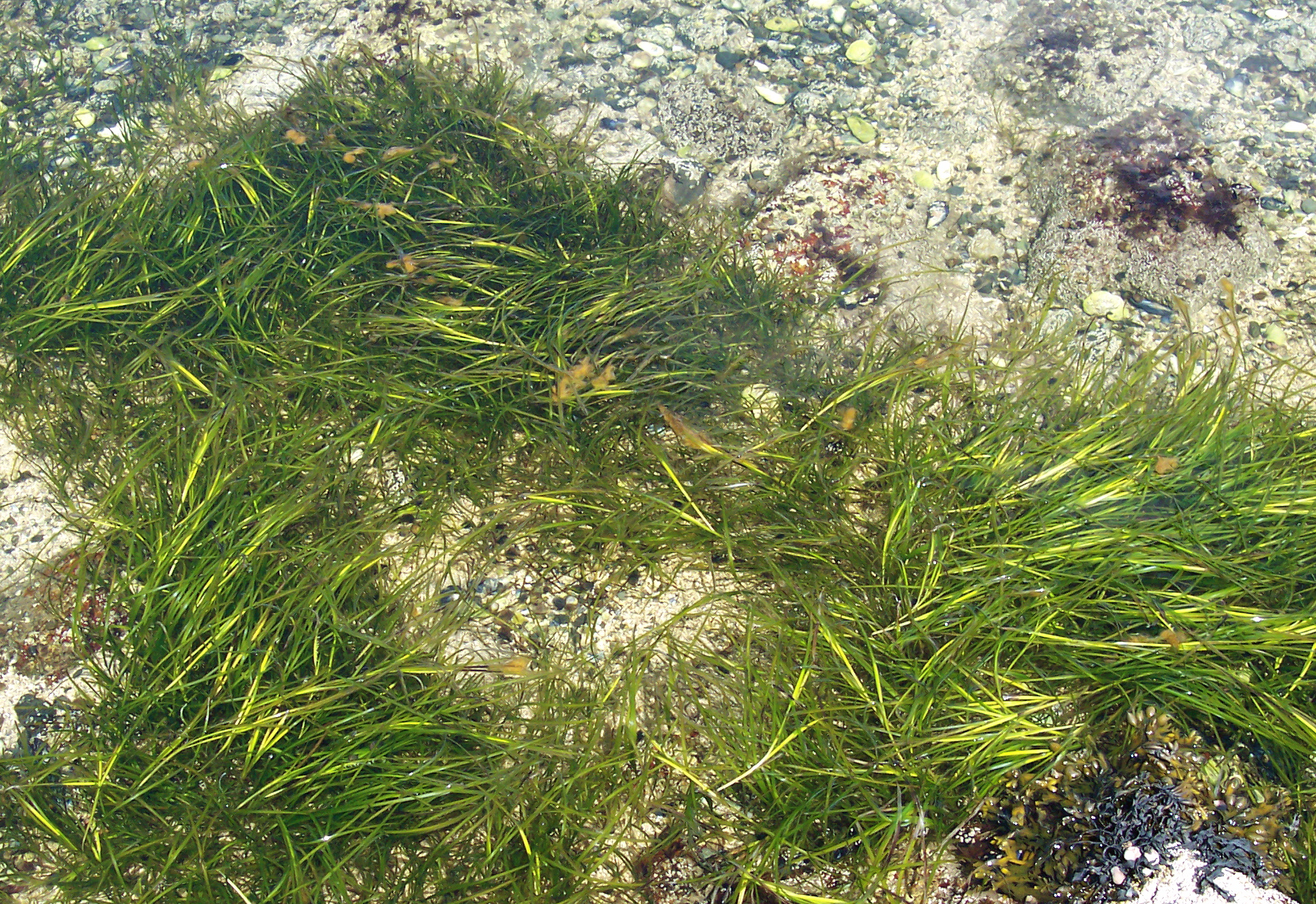 Zostera Eel Grass. [Note: The caption on the thumbnail of this picture in the Zostera article on the English Wikipedia reads: "Zostera sp in Mussel Ridge Channel, Birch Island, Maine." Which species is not specified.]